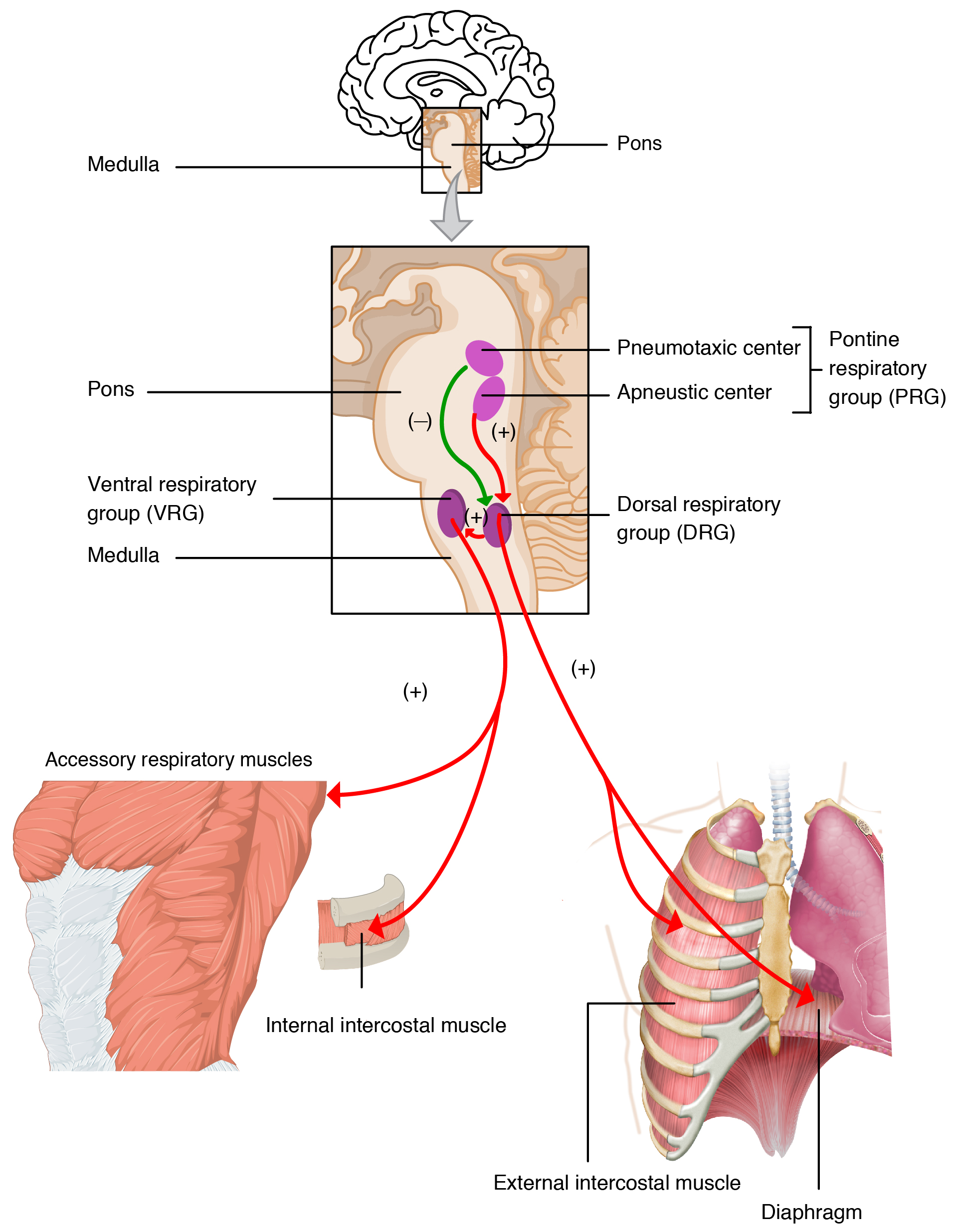 Illustration from Anatomy & Physiology, Connexions Web site. Jun 19, 2013.